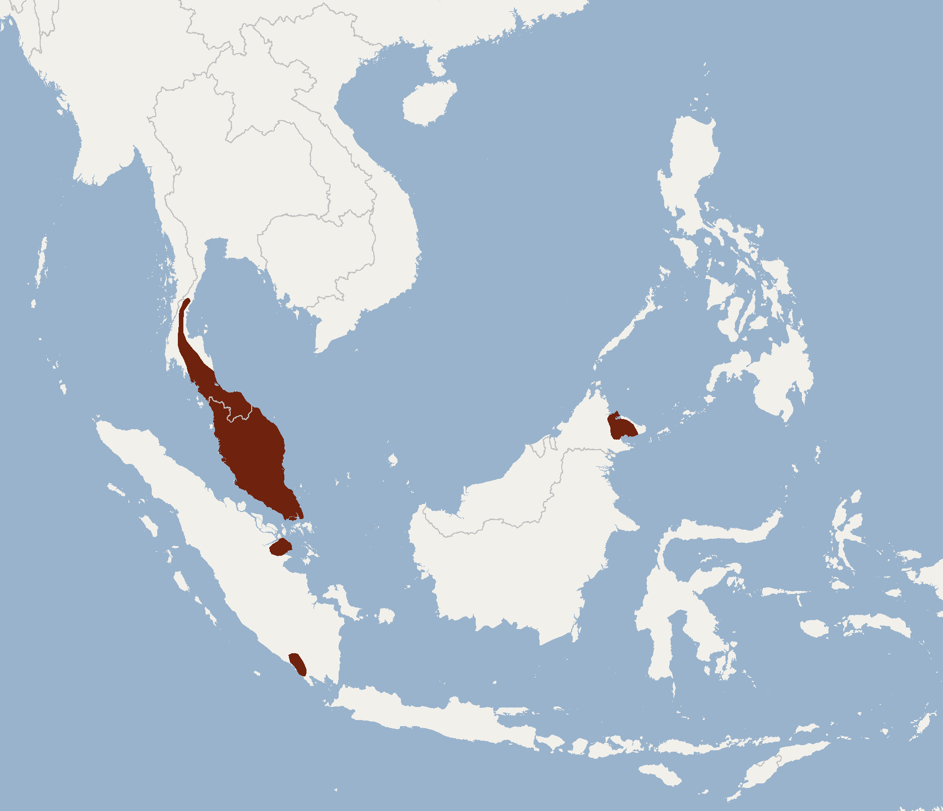 Geographical distribution of Phoniscus atrox according to IUCNRedlist